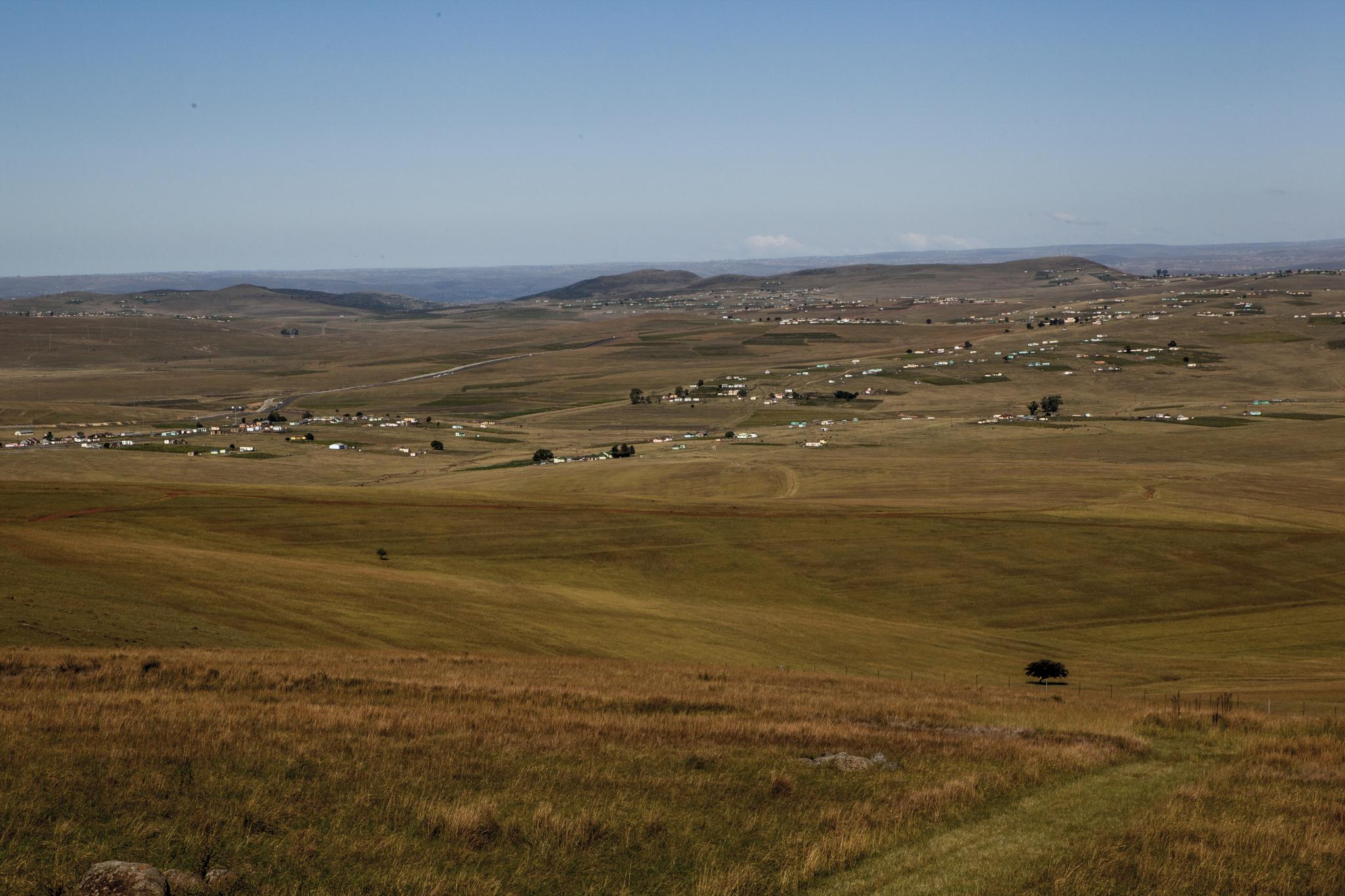 Qunu